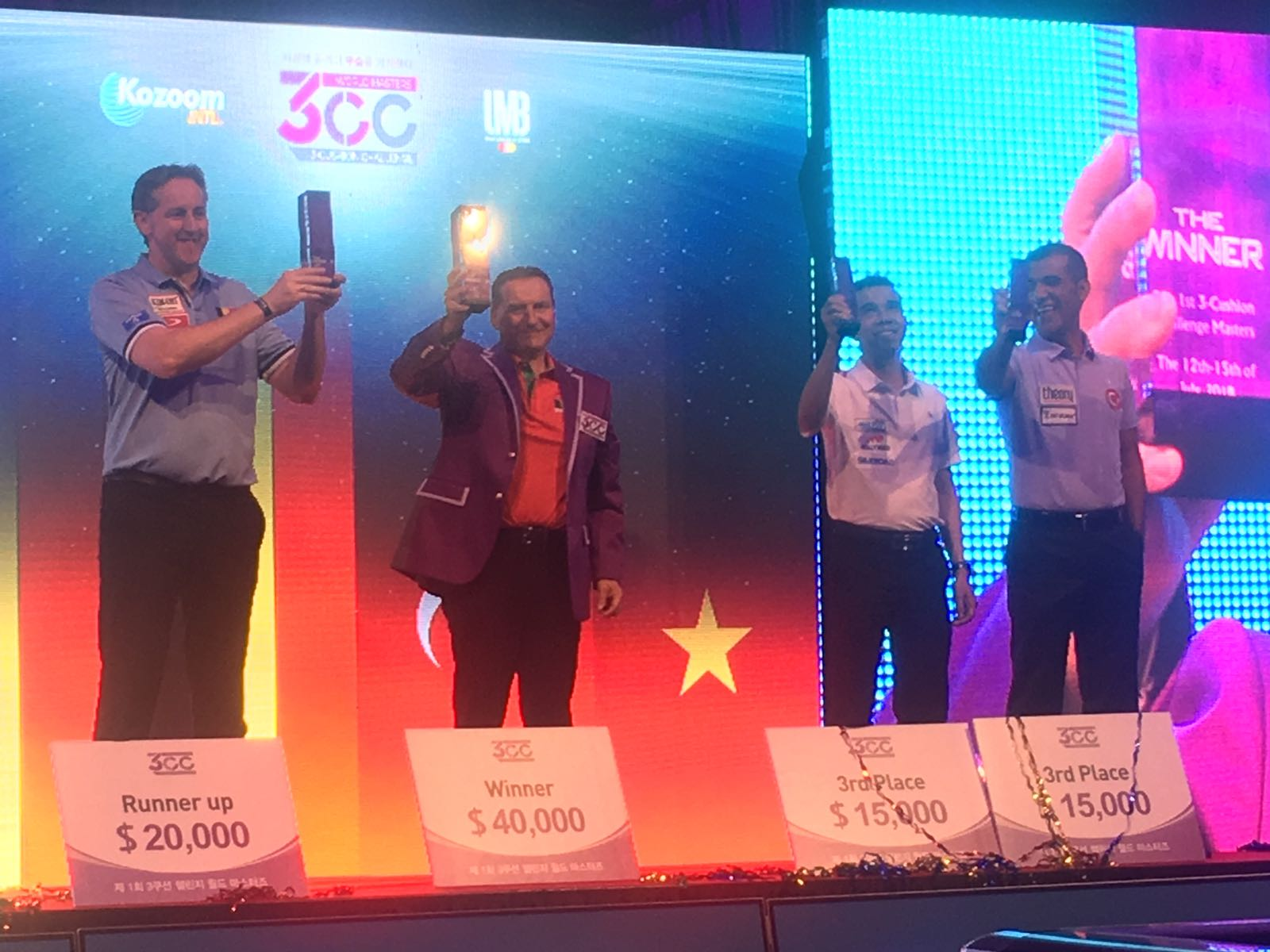 see file name, categories